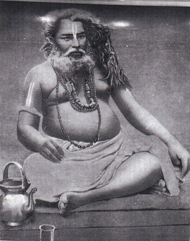 This is the photograph of Bijoy Krishna Goswami (1841-1899), a renowned Bengali Vaishnav (in Hinduism, a sect devoted towards the life and teachings of Lord Vishnu) saint of India. He was born at Dahakul in the district of Nadia. A devoted member of the Brahmo Samaj in the early part of his life, he later became a devotee of Lord Vishnu. He also came in contact with saints like Ramakrishna, Trailanga Swami and Lokenath Brahmachari.He entered into Mahasamadhi (died or final liberation) in 1899 AD. More information about the saint can be obtained from the following book published in Bengali language: “Bharater Sadhak – Sadhika (Volume 1). This book is written by Subodh Chakravorty.It is published in India by Kamini Publication. Address: 115, Akhil Mistry Lane, Kolkata – 700 009 India